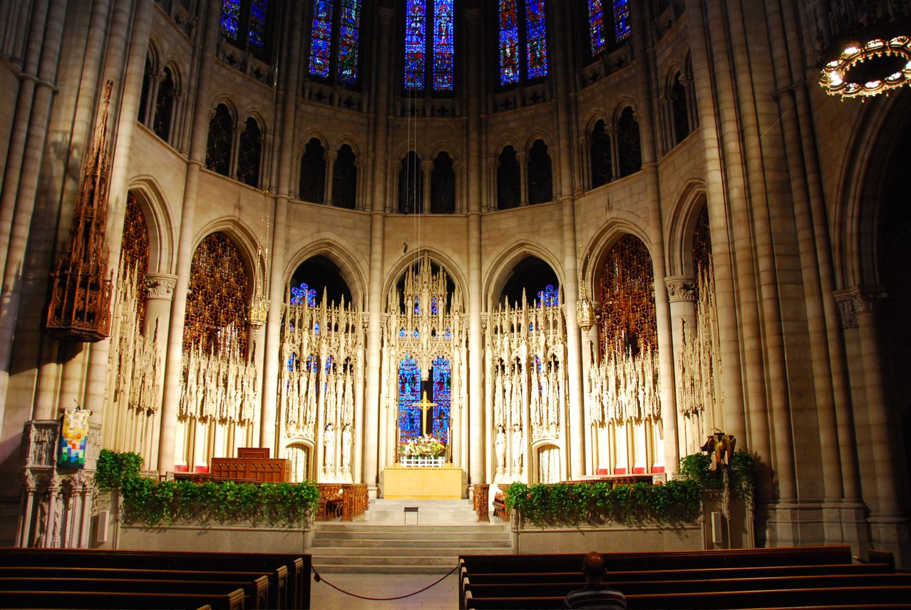 Front (apse) of Riverside Church in New York City